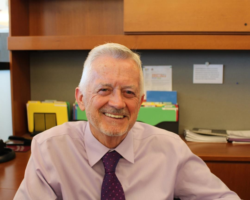 Peter J. Quinn as an information technology (IT) consultant.